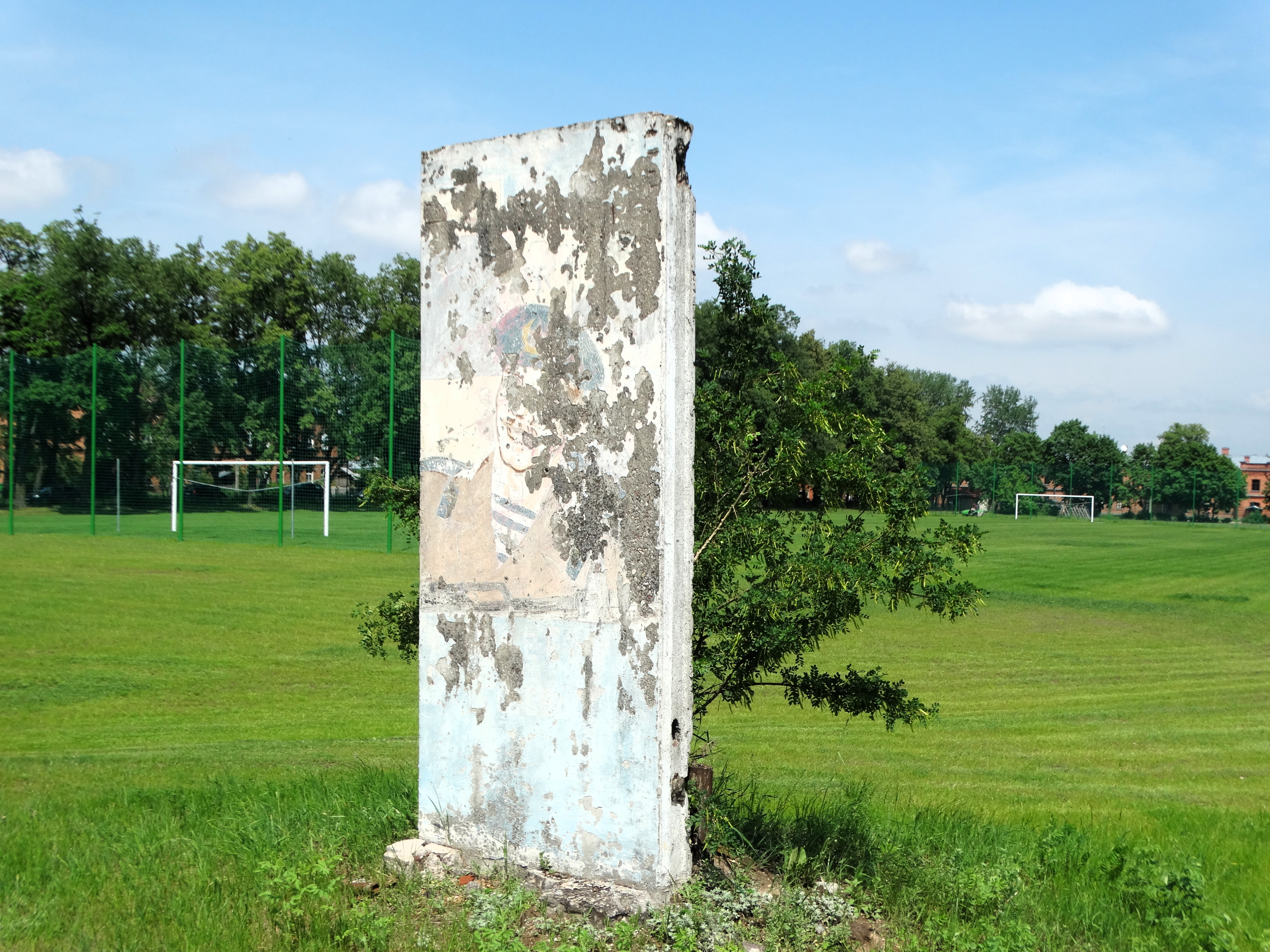 Stadium near the former army barracks, Panemunė (Kaunas), Lithuania